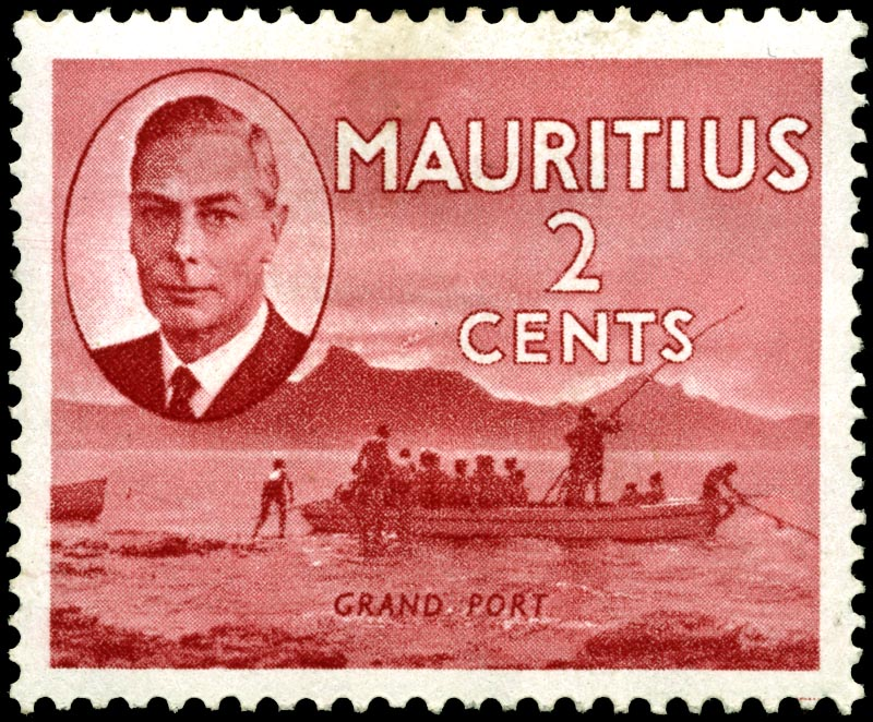 Mauritius 2c stamp of 1950